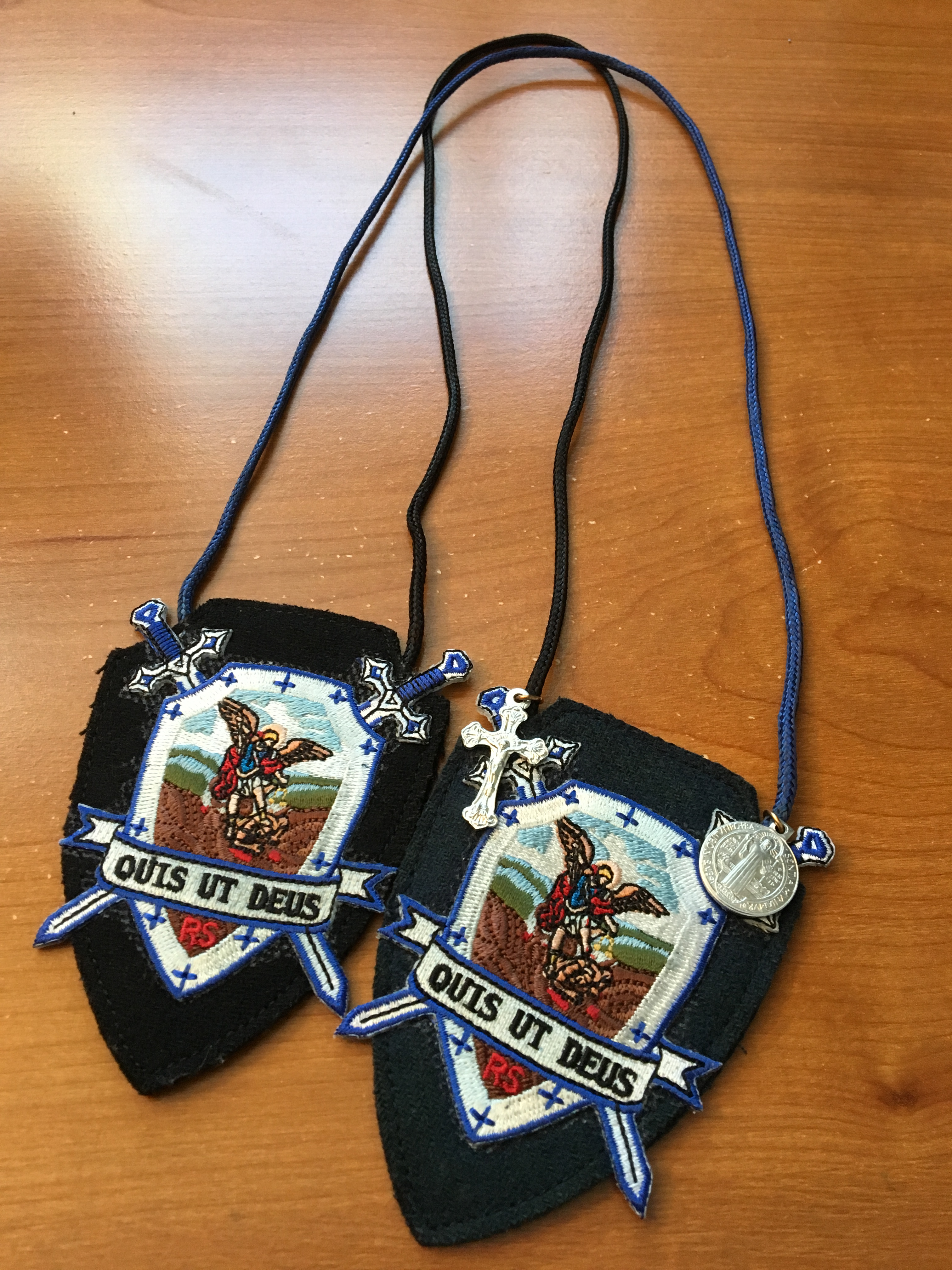 Scapular of St. Michael the Archangel (Black and Blue Scapular)